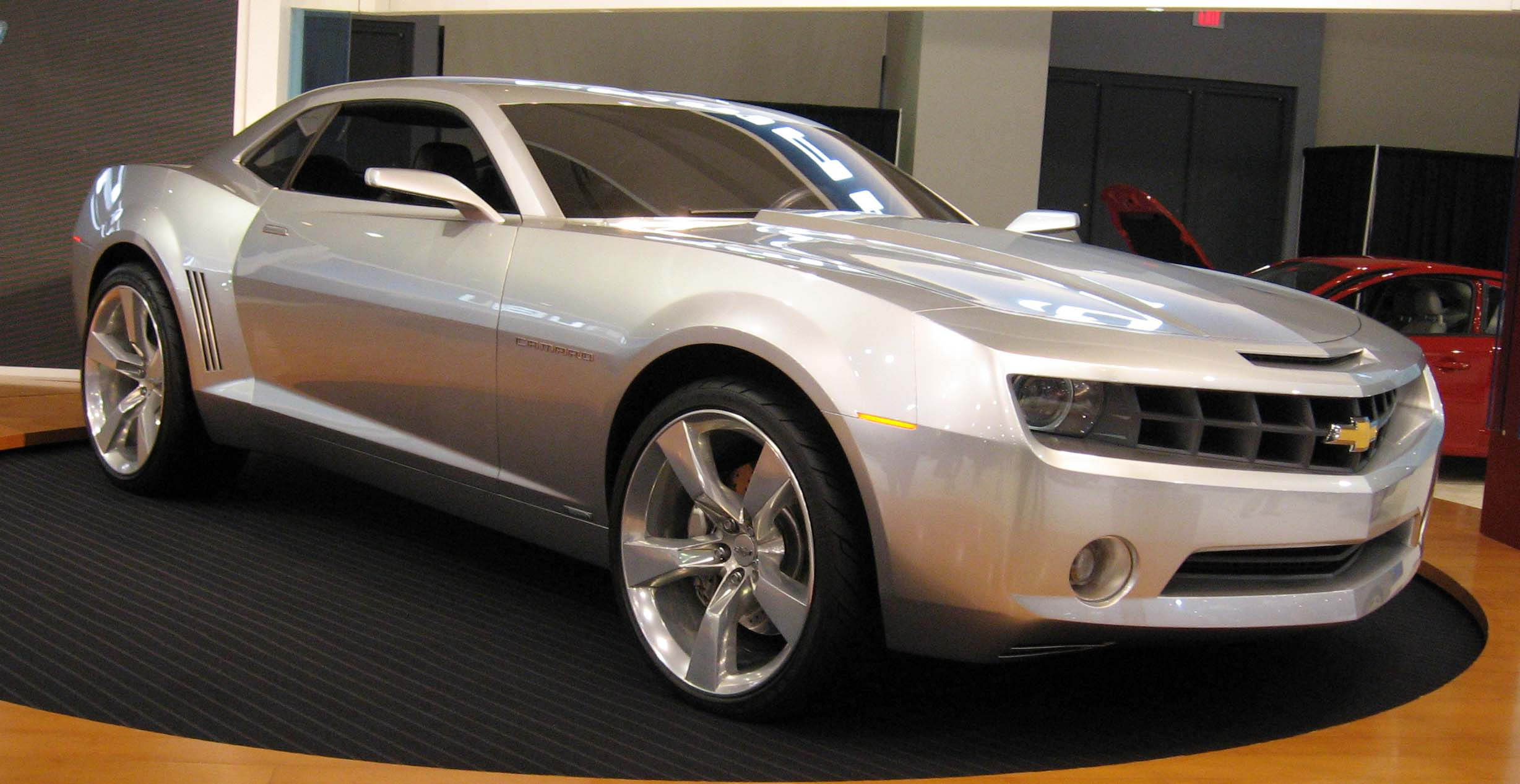 Chevrolet Camaro concept photographed at the Washington Auto Show.